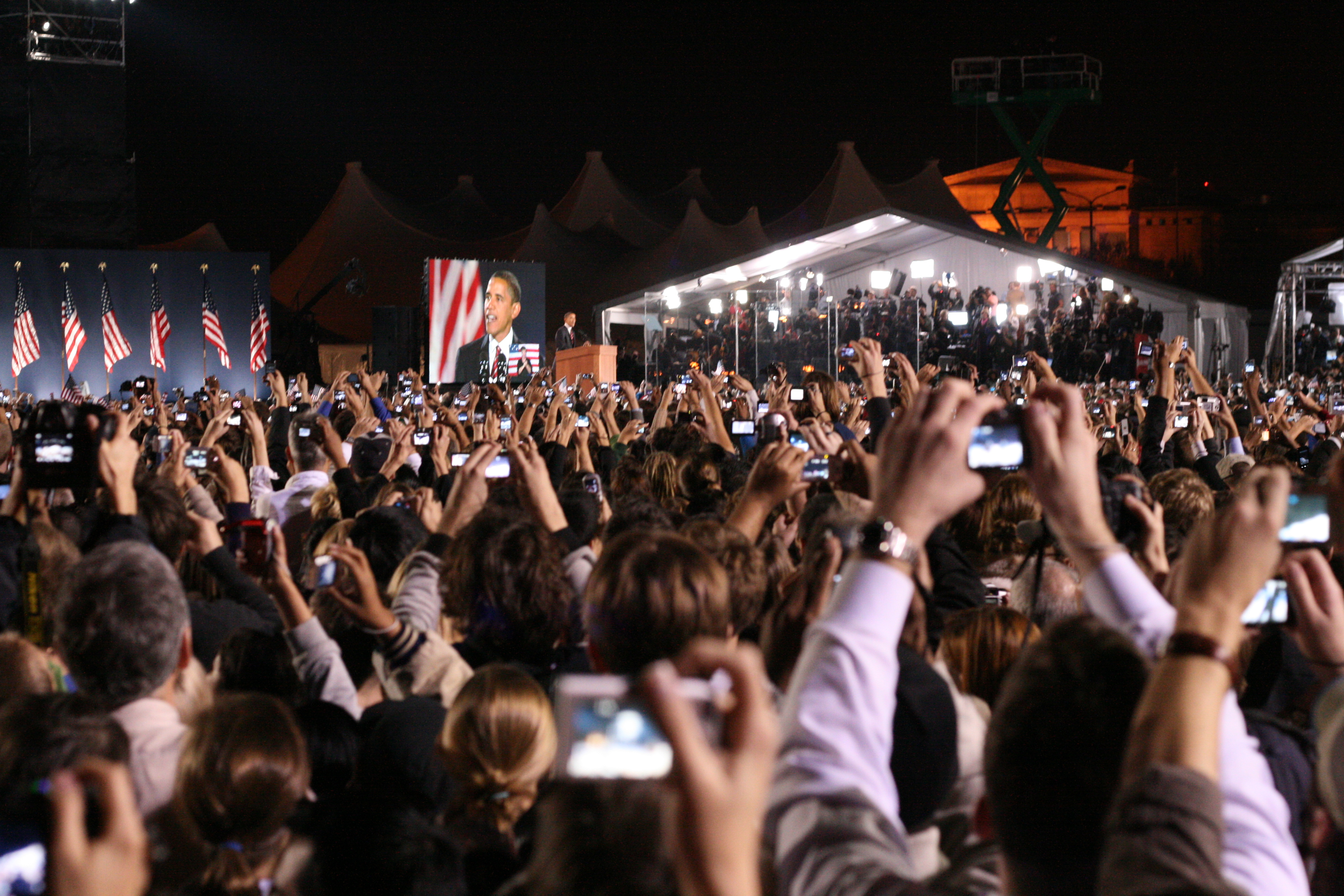 What's really interesting to me is the sea of still and video cameras. We're all press now.